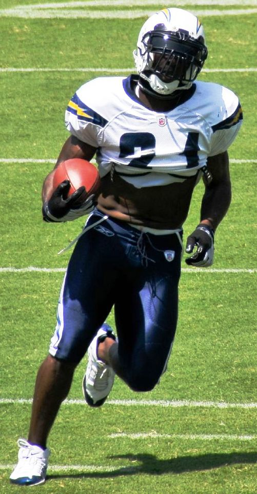 San Diego Chargers running back LaDainian Tomlinson running the ball during practice on August 2, 2008.